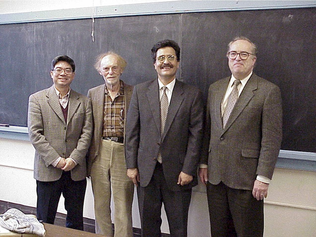 From left Prof. Ronald W. Yeung, Prof. John V. Wehausen, Professor R. Cengiz Ertekin and Prof. William C. Webster